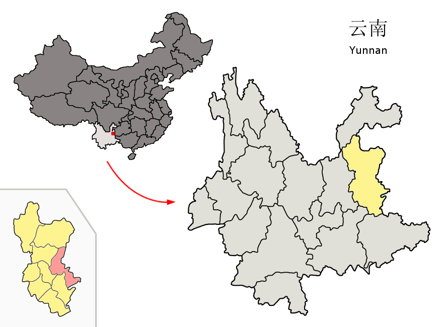 Location of Fuyuan County (pink) and Qujing Prefecture (yellow) within Yunnan province of China Map drawn in september 2007 using various sources, mainly : Yunnan province administrative regions GIS data: 1:1M, County level, 1990 Yunnan Counties map from